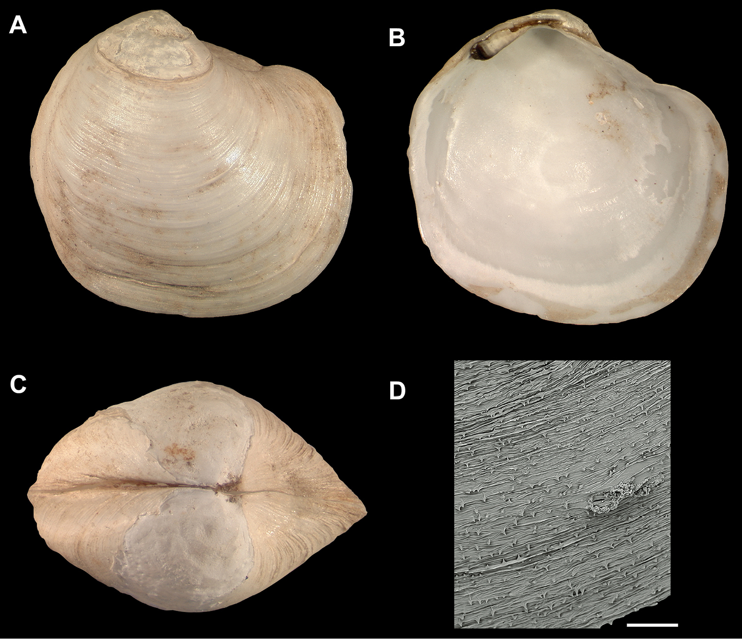 Spinaxinus sentosus. A–D holotype, NMW.Z. 2002.108.1, length = 13.5 mm, height = 13.3 mm, width = 8.6 mm. A Exterior of right valve B Interior of left valve C Dorsal view of both valves D Scanning electron micrograph of periostracum, scale bar = 200 µm.